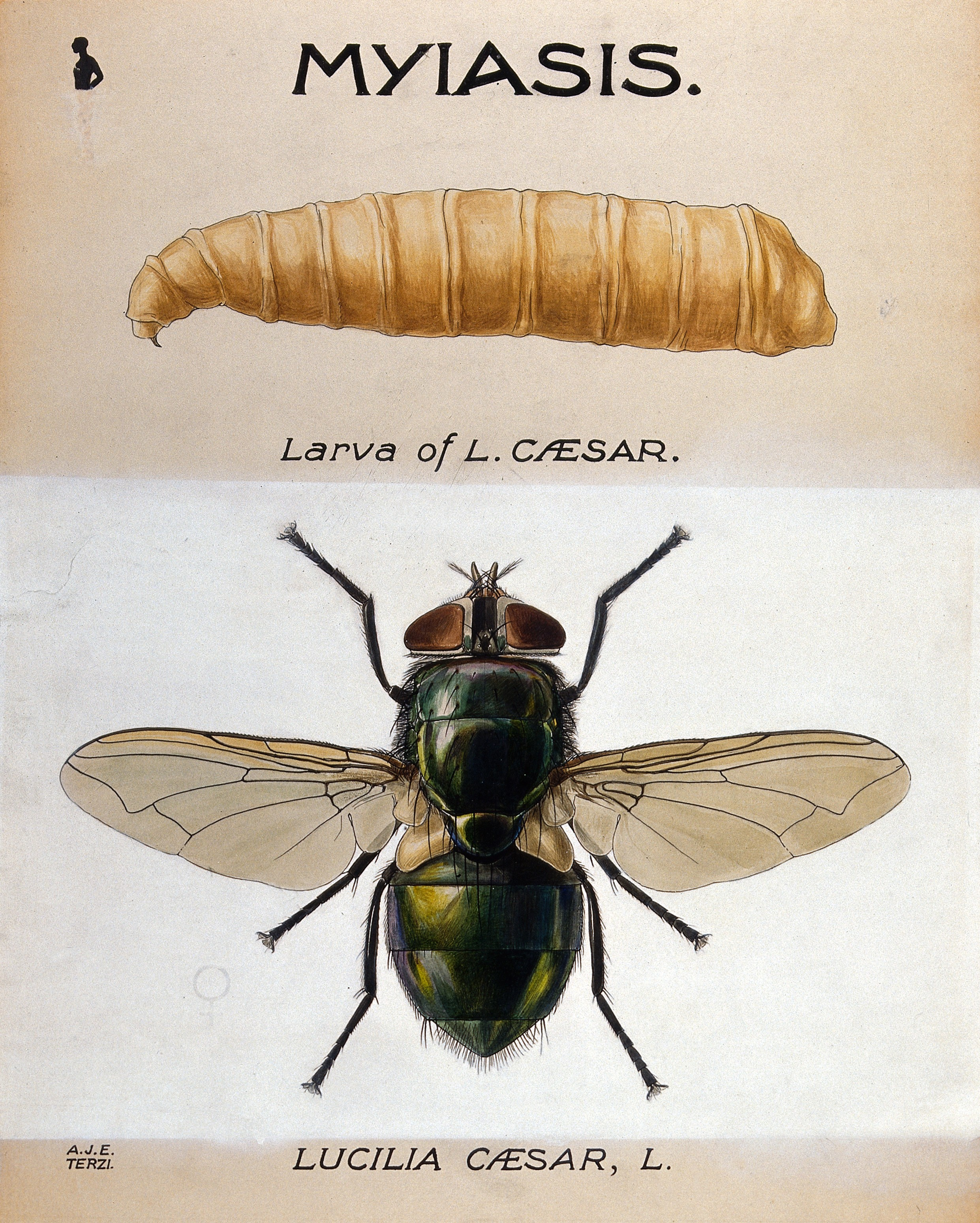 The larva and fly of a greenbottle (Lucilia caesar). Coloured drawing by A.J.E. Terzi. Iconographic Collections Keywords: Amedeo John Engel Terzi